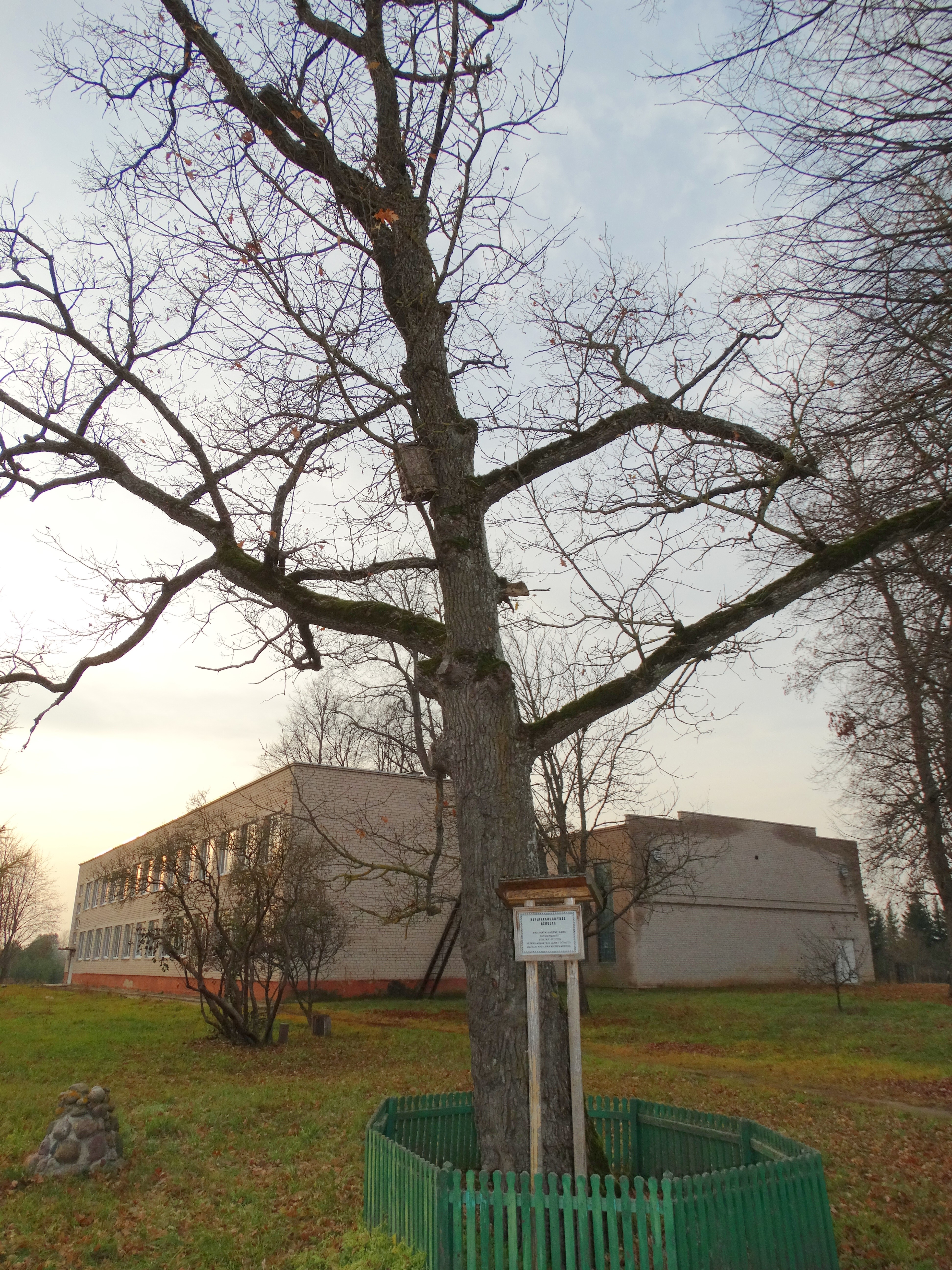 Oak tree in Kvetkai, Biržai district, Lithuania